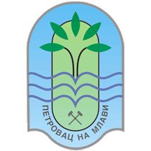 Small Coat of Arms of Petrovac na Mlavi